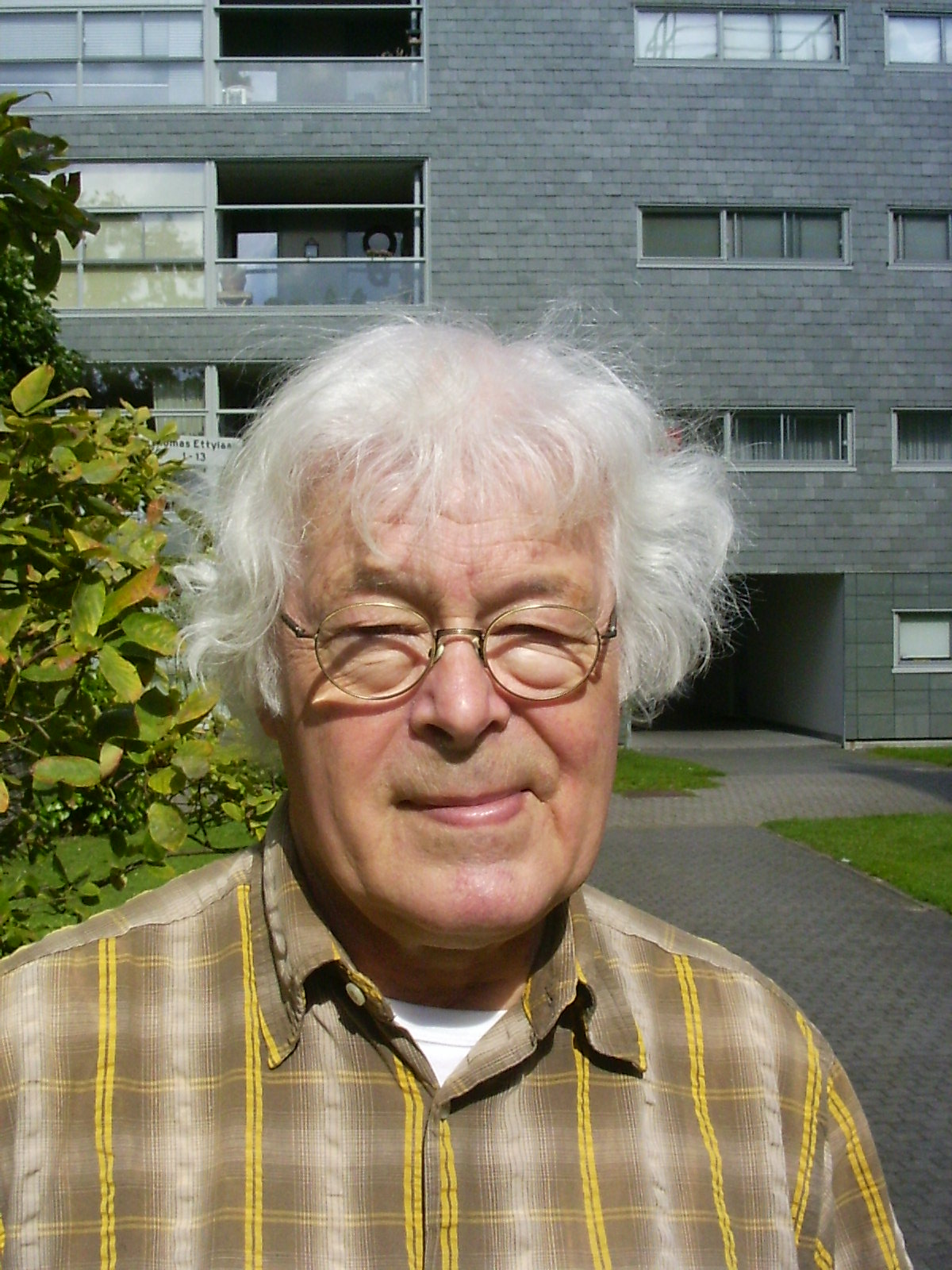 Cornelis Dirk Andriesse